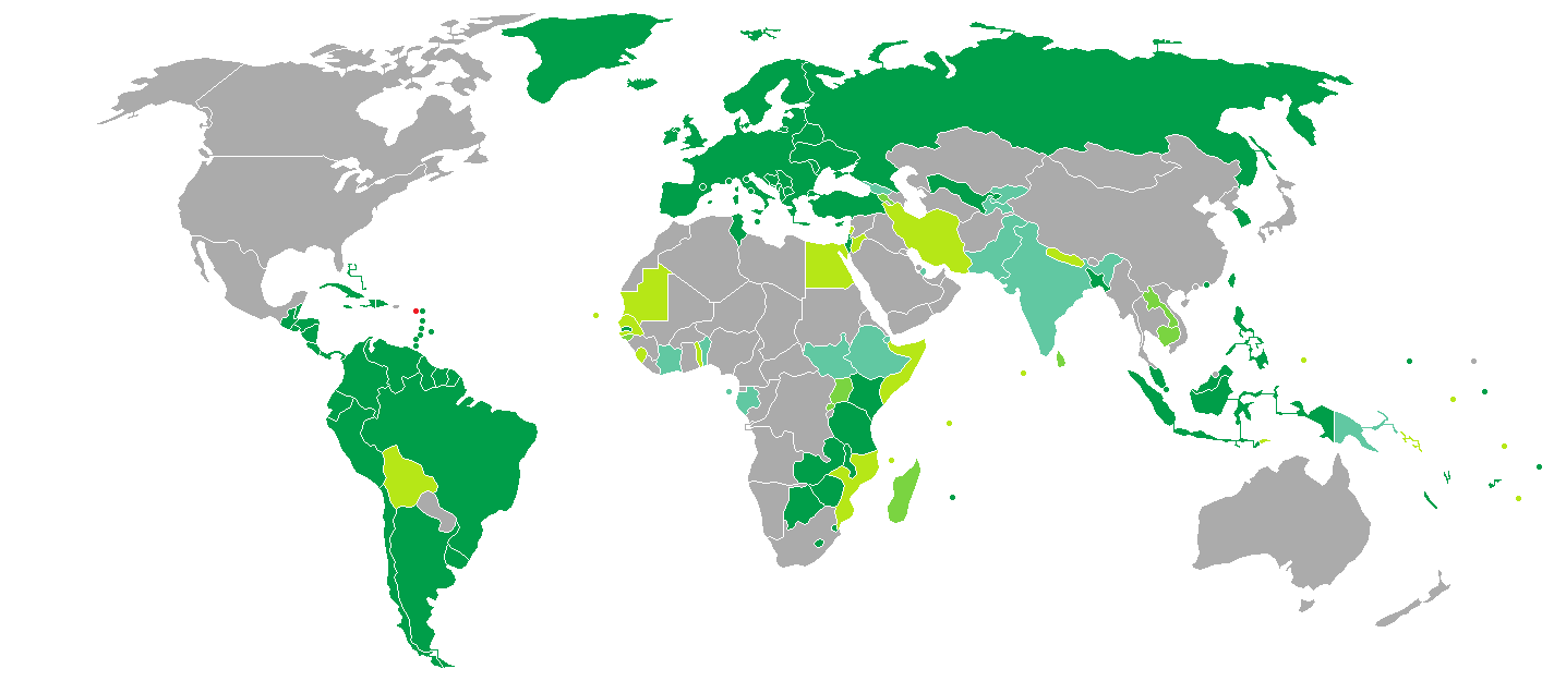 Visa requirements for Saint Kitts and Nevis citizens Saint Kitts and Nevis Visa free access Visa on arrival eVisa Visa available both on arrival or online Visa required